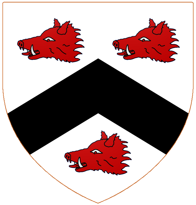 Shield of arms of The Viscount Keith